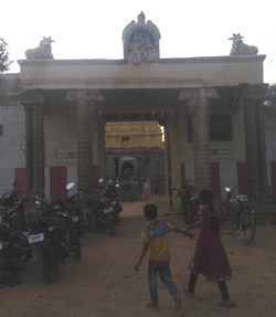 Kamarasavalli karkkodesvarar temple, Ariyalur district, Tamil Nadu, India